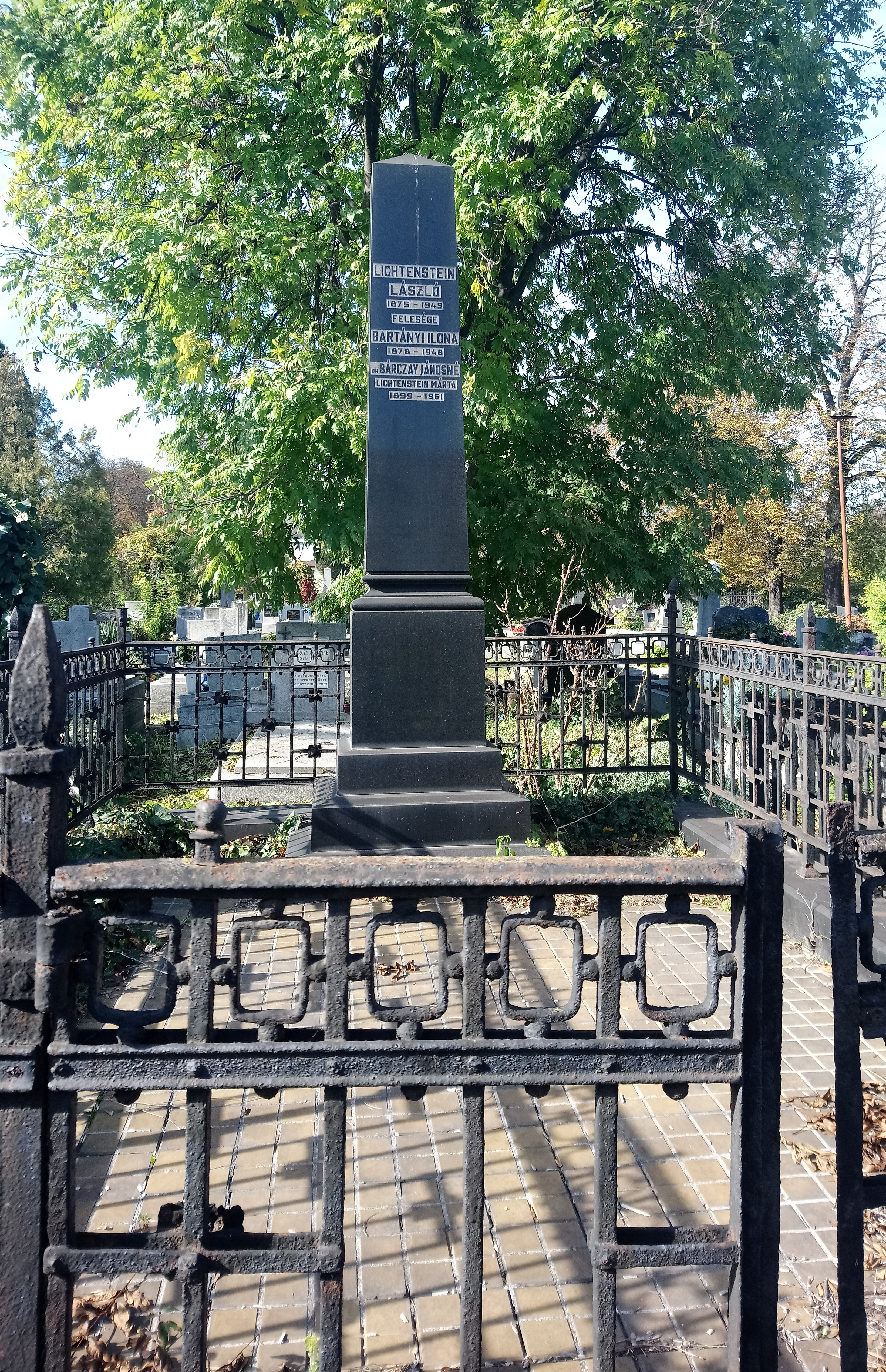 Tomb of László Lichtenstein (1875–1949). Evangelical Cemetery of Mindszent, Miskolc, Hungary